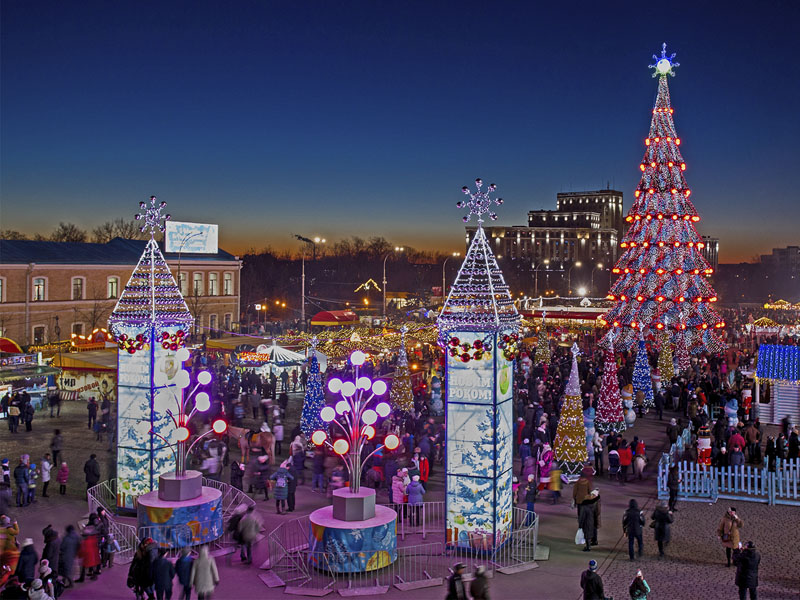 New Year decoration of Swobody Square, Kharkiv